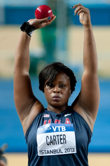 Michelle Carter during 2012 IAAF World Indoor Championships in Istanbul